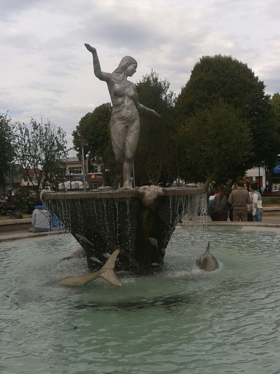 Estatua de la Pincoya, Plaza de Castro, Chiloé